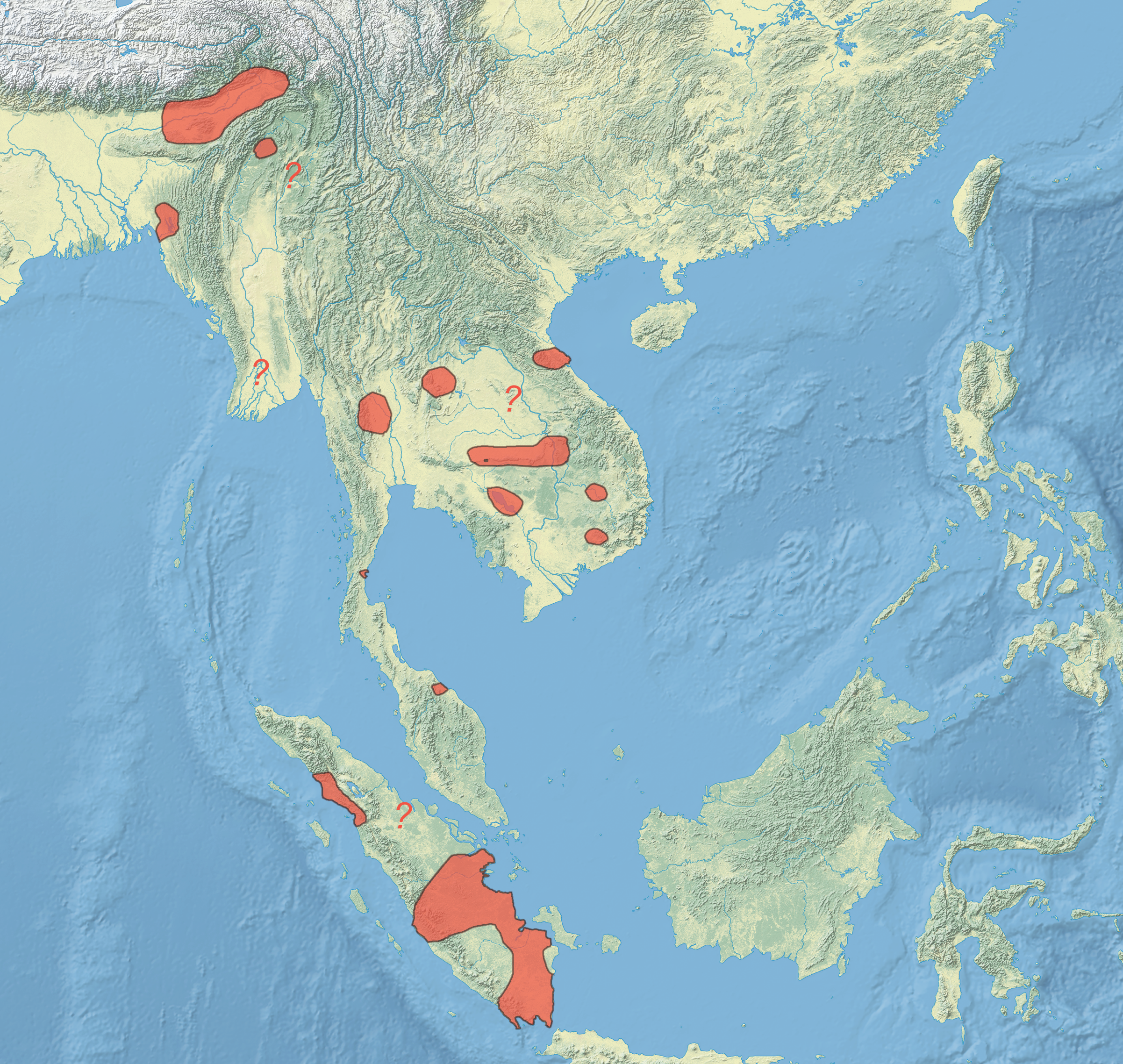 Distribution map of Cairina/Asarcornis scutulata (White-winged Duck). Distribution data from BirdLife International (2001) Threatened birds of Asia: the BirdLife International Red Data Book. Cambridge, UK: BirdLife International. Map from Natural Earth.